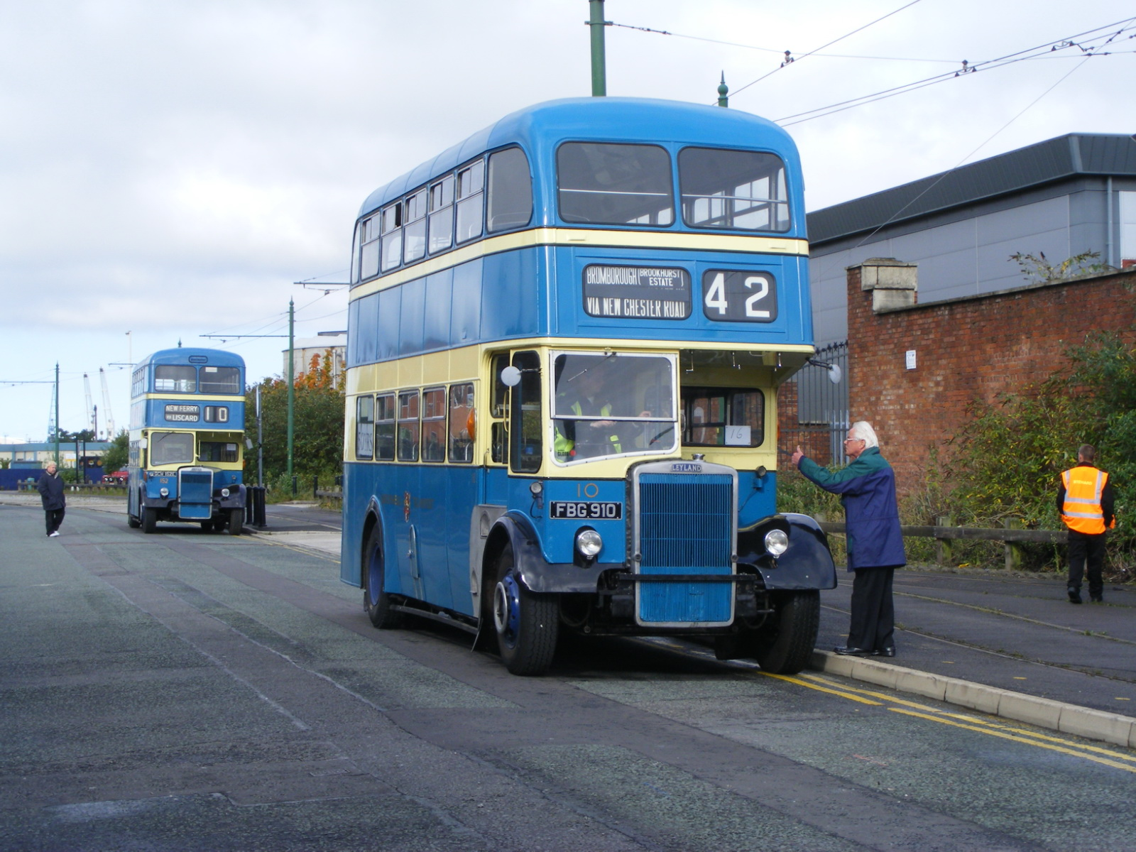 Birkenhead Corporation 10 (FBG 910), a Leyland Titan/Massey, seen at Wirral Bus & Tram Show 2008.